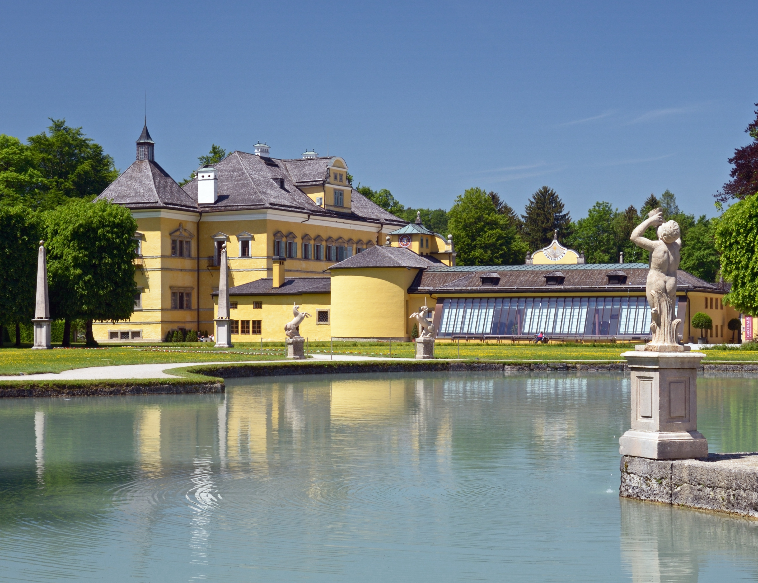 Hellbrunn Palace. Salzburg, Austria